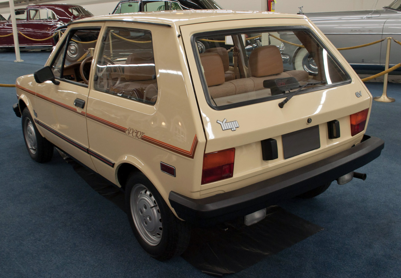 1987 Yugo GV Sport (for sale, at $14,500!)